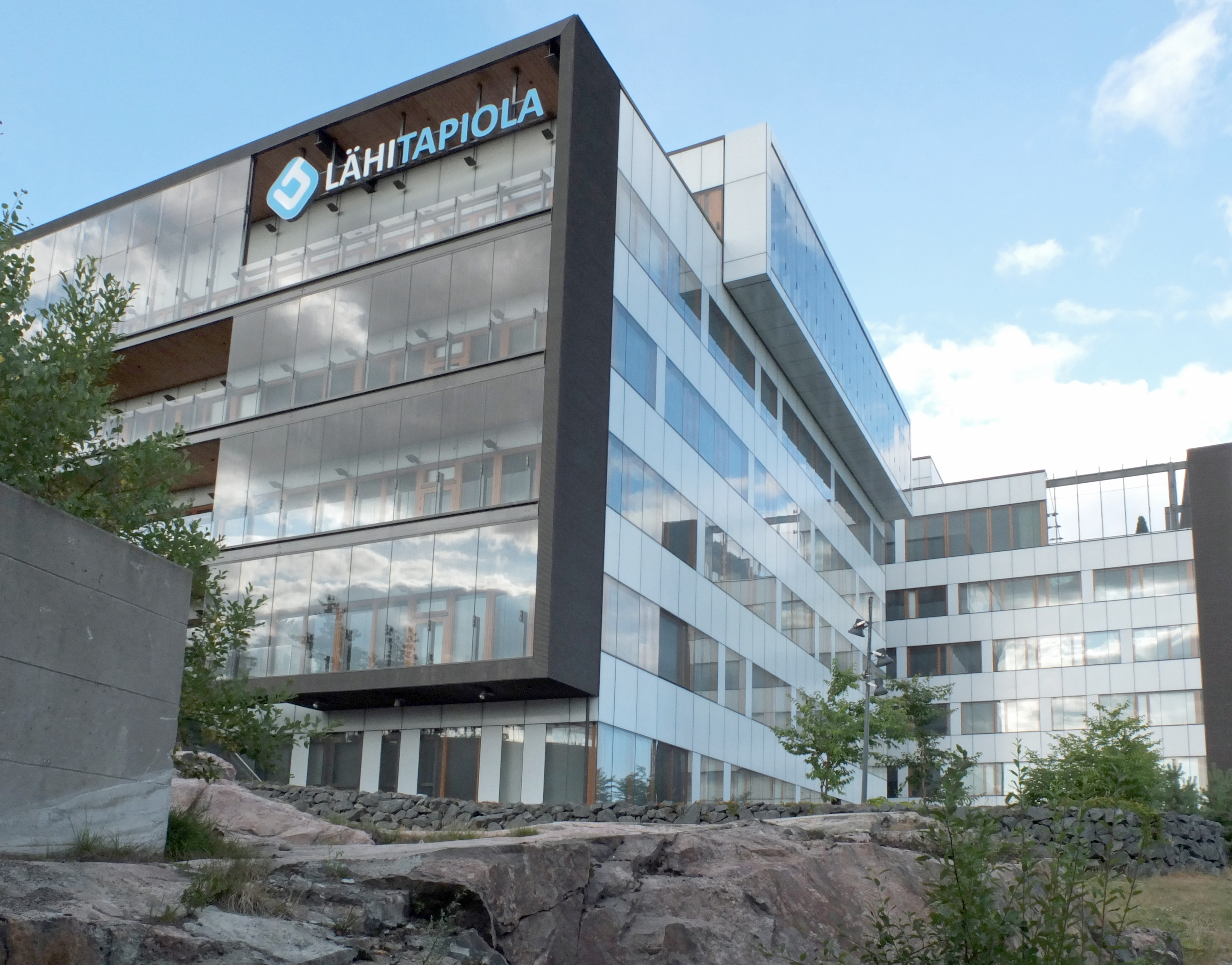 Office building of financial services company Lähitapiola (merger between Lähivakuutus and Tapiola) in Tapiola, Espoo, Finland, summer 2013.